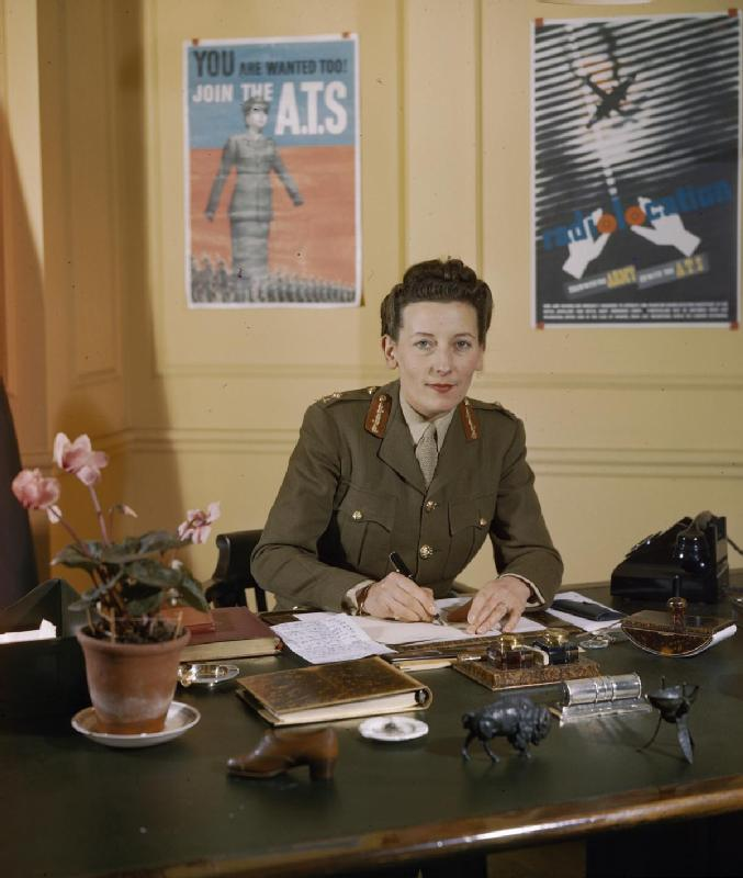 Women at War 1939 - 1945 Auxiliary Territorial Service: The Director of the Auxiliary Territorial Service, Chief Controller Jean Knox, at her desk.